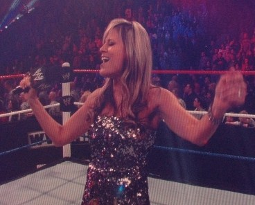 Lillian Garcia at WWE Tribute to the Troops Event on December 11, 2011 in Fayetteville, North Carolina